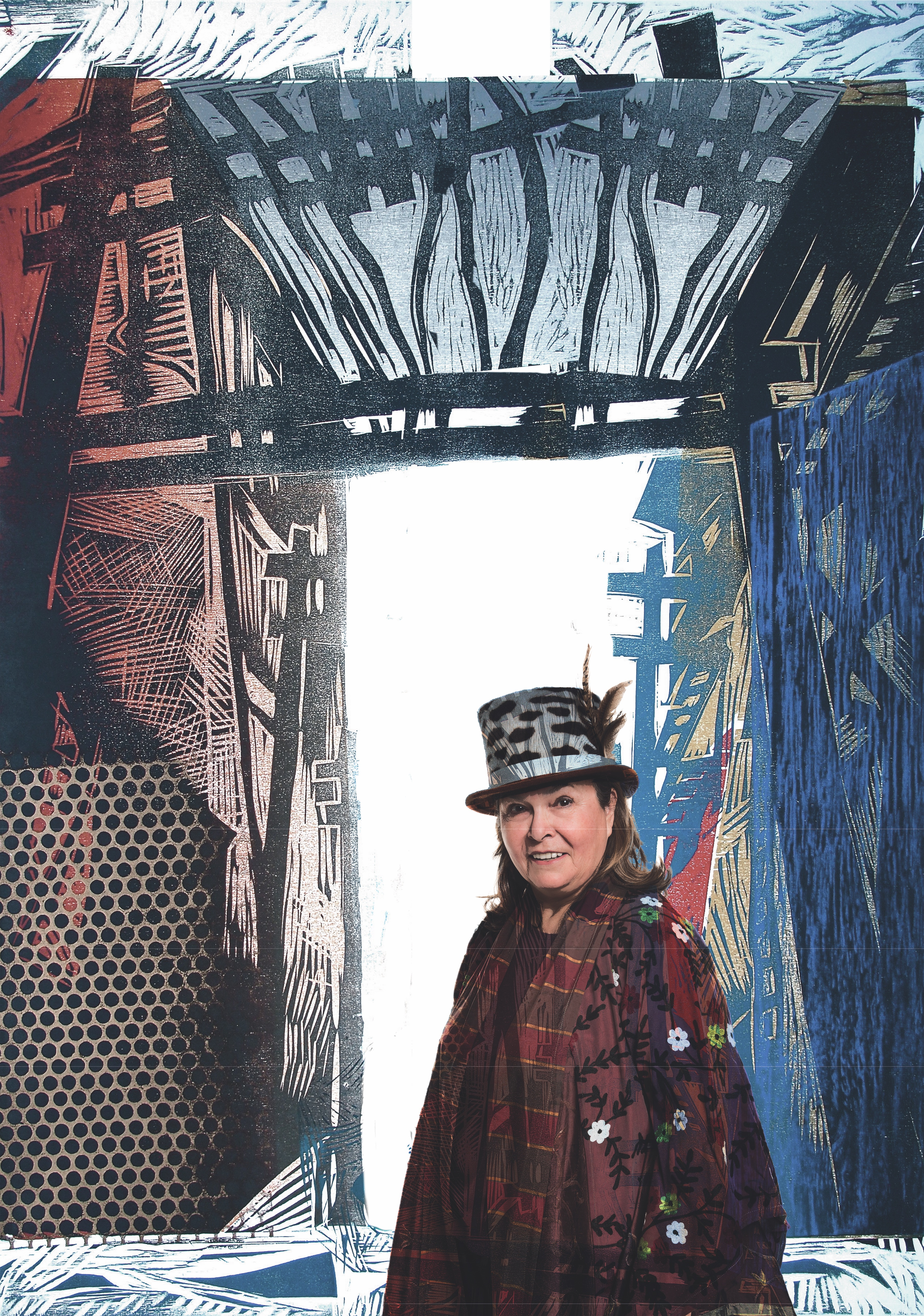 Margo Kane, artistic director of Full Circle: First Nations Performance and an Order of Canada recipient, reprises her role as narrator in Bah Humbug!